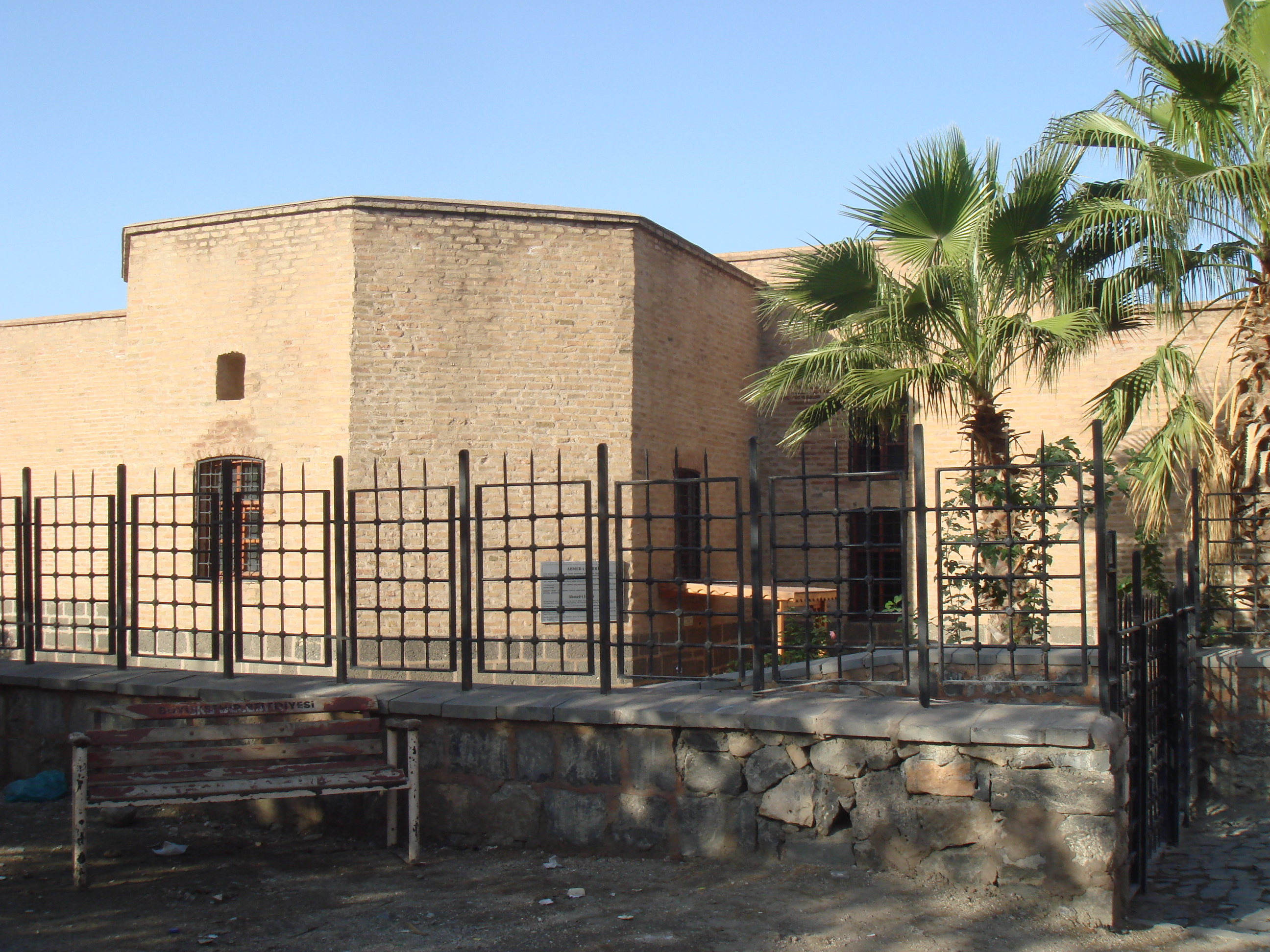 Grave of the Kurdish writer Mollah Ahmad-i Jaziri (Mullah Ahmad Jaziri, Meleyê Ehmedê Cezirî), Cizre, 2009. Kurdî: Tirbeya Mela Ehmedê Cizîrî, li Cizîre, 2009